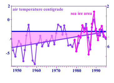 temperature and pack ice area - the scale for the ice is inverted to demonstrate the correlation - the horizontal line is the freezing point - the oblique line the average of the temperature - in 1995 the temperature reached the freezing point Uwe Kils.